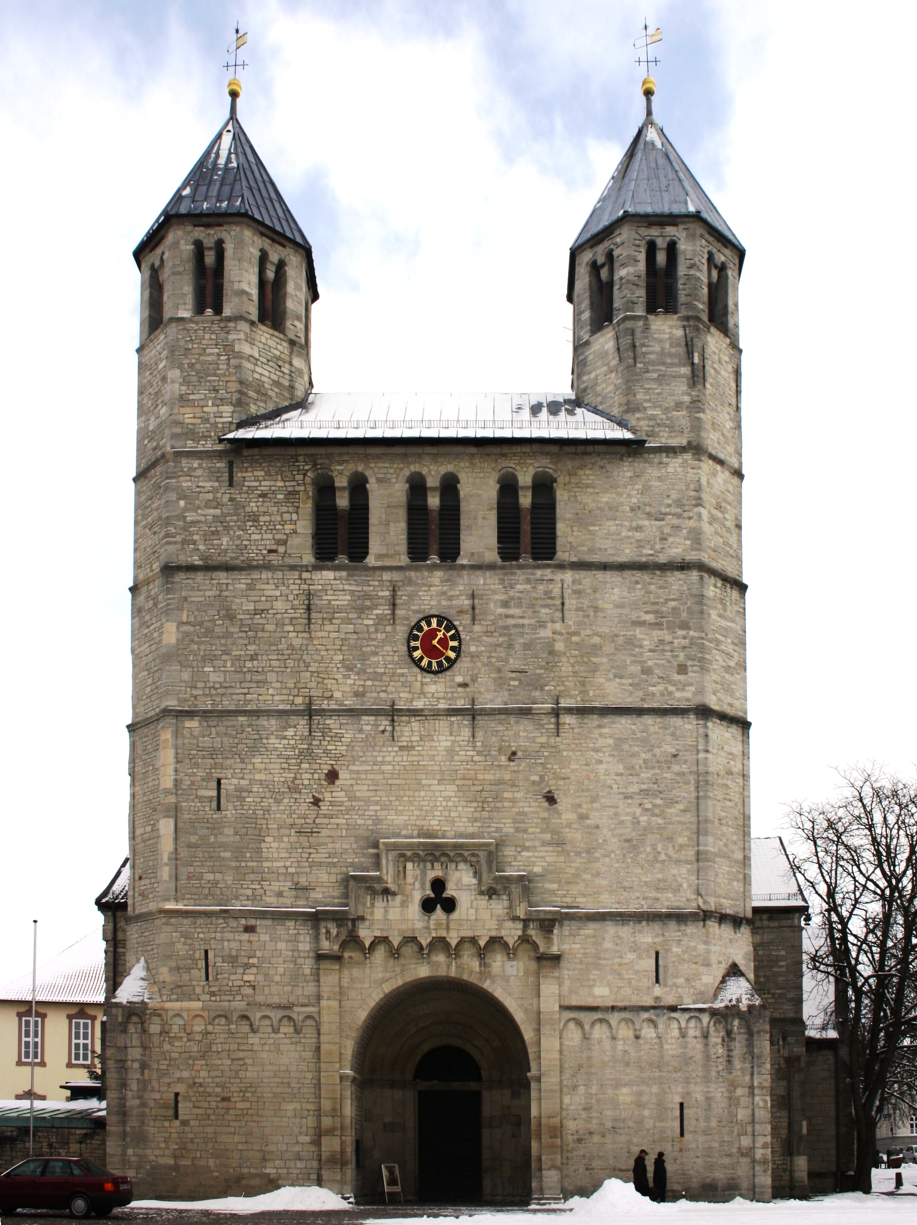 Abbeychurch in Gandersheim, Germany. Romanesque west part, built in 12th century.